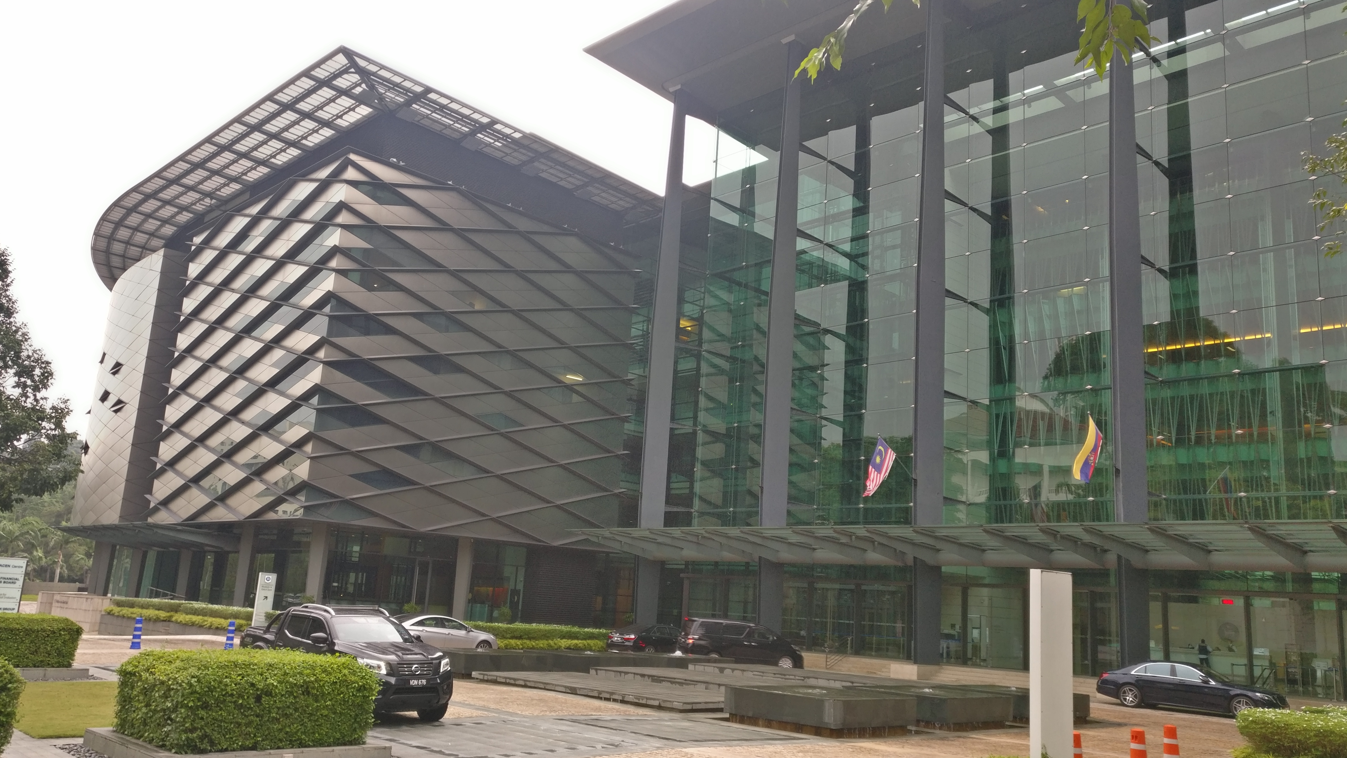 AFI building